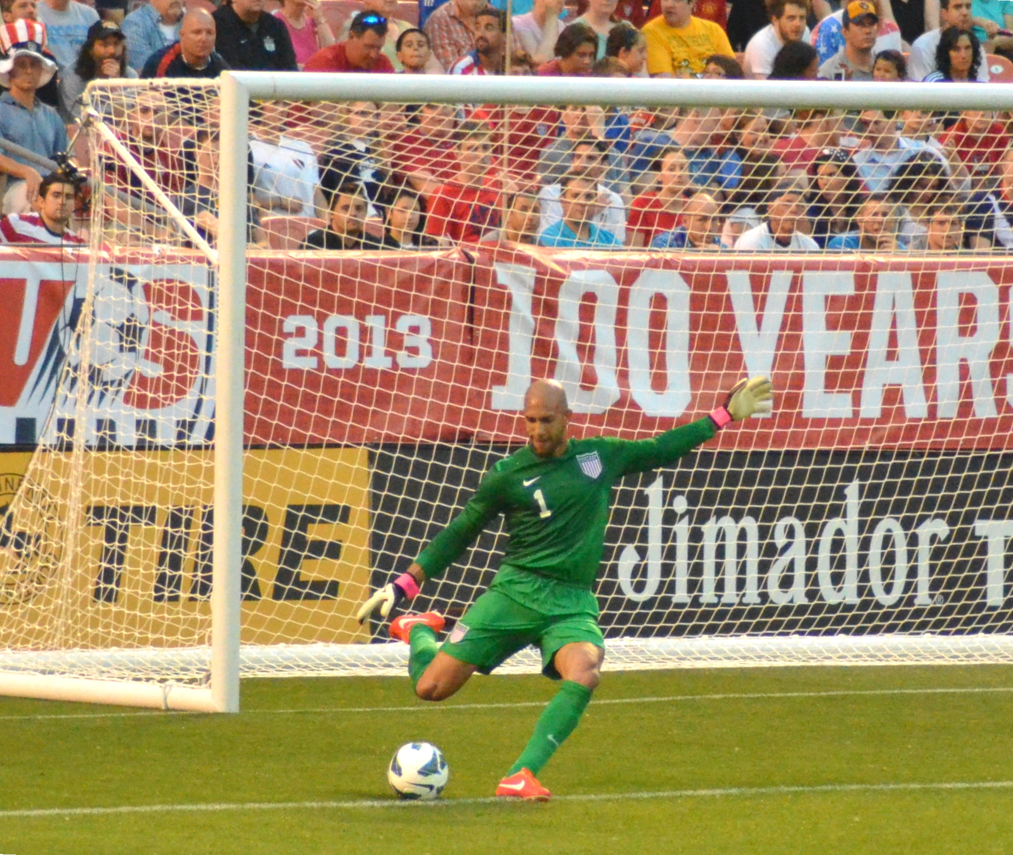 FirstEnergy Stadium Home of the Cleveland Browns